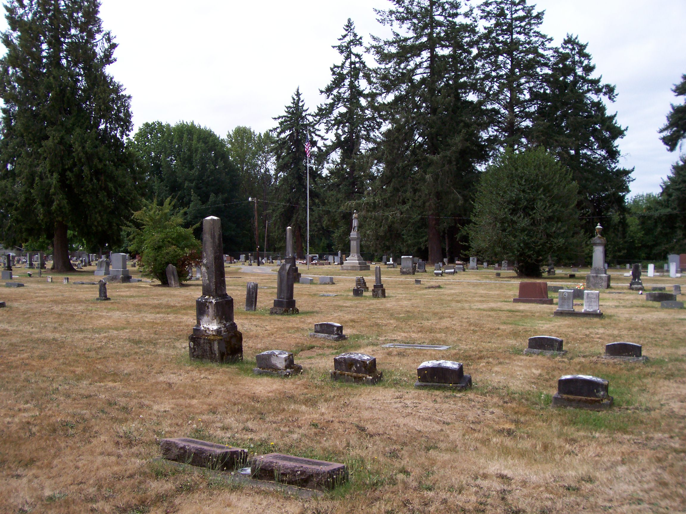 Crystal Lake Cemetery located in south Corvallis. Listed in the National Register of Historic Places.